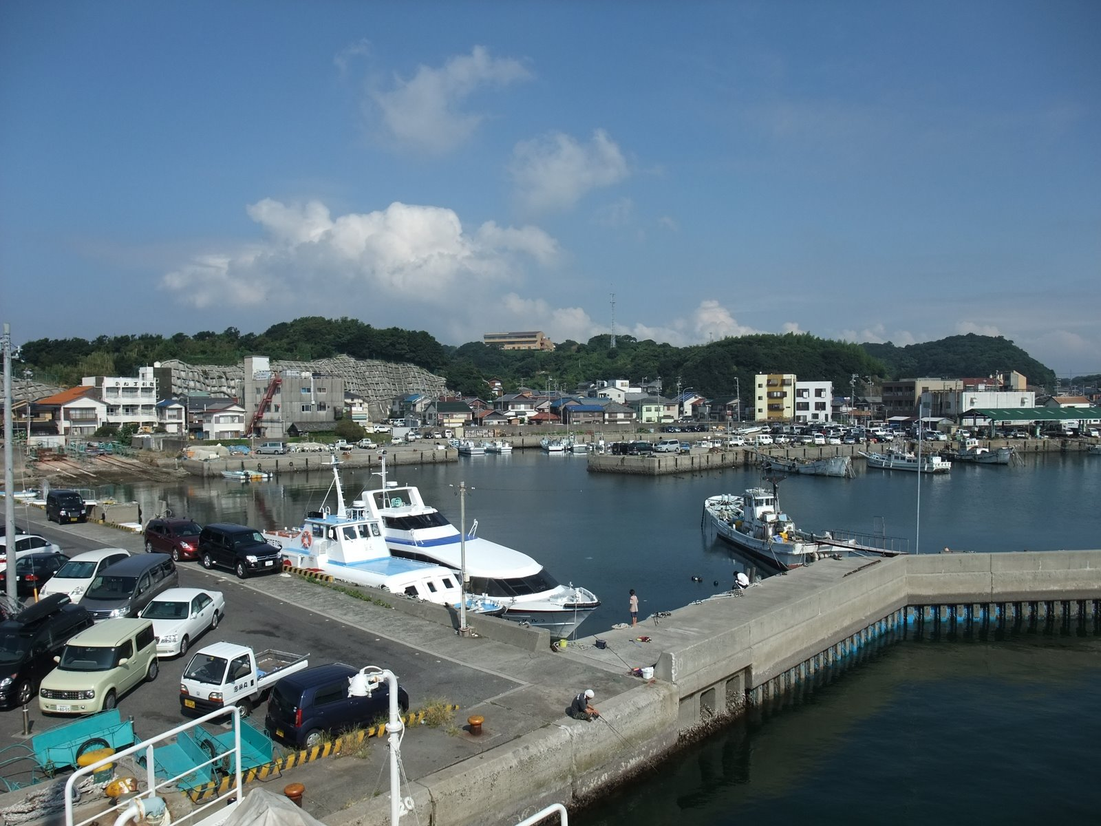 Port of Morozaki.